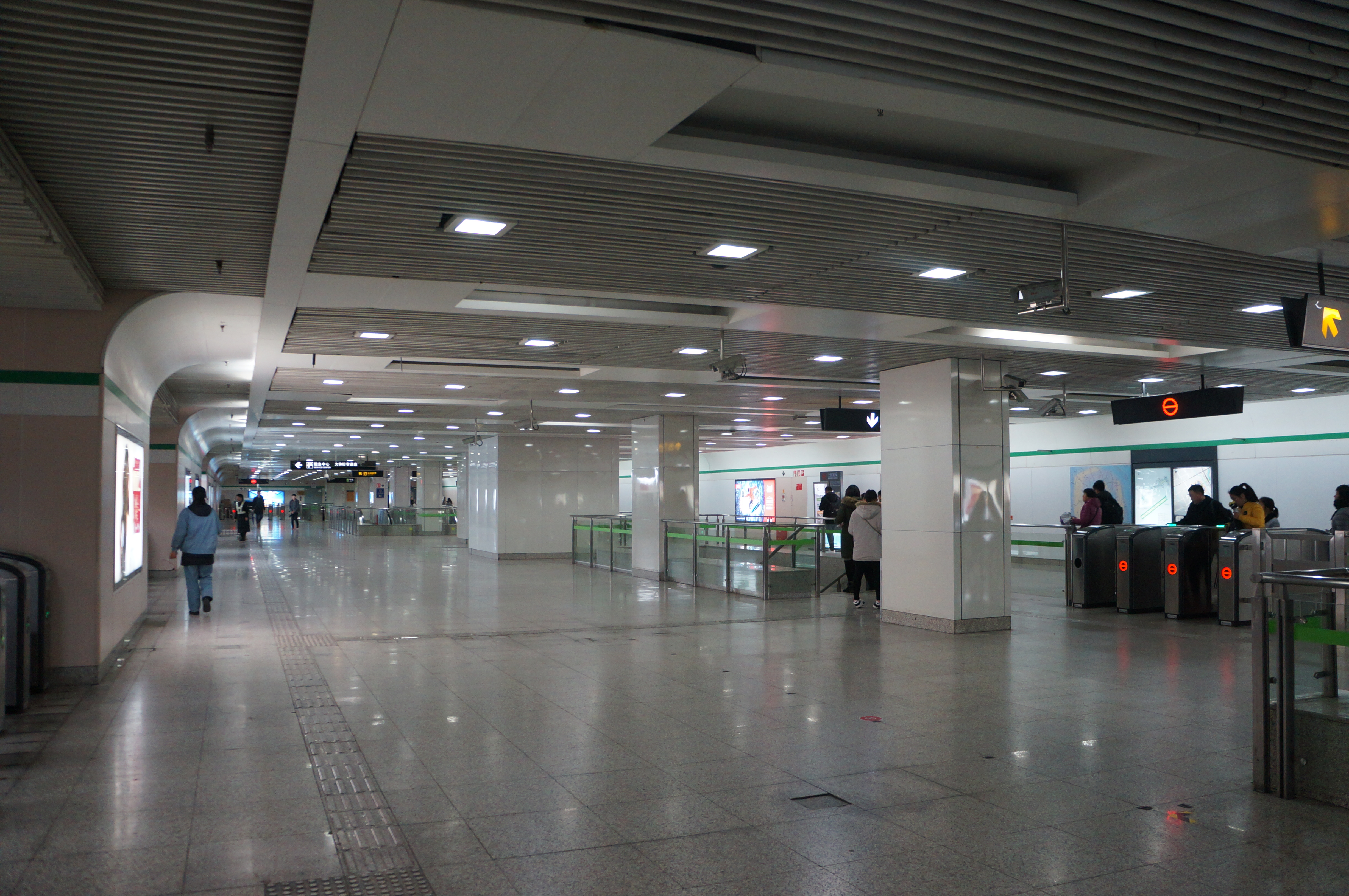 201801 Concourse of East Xujing Station